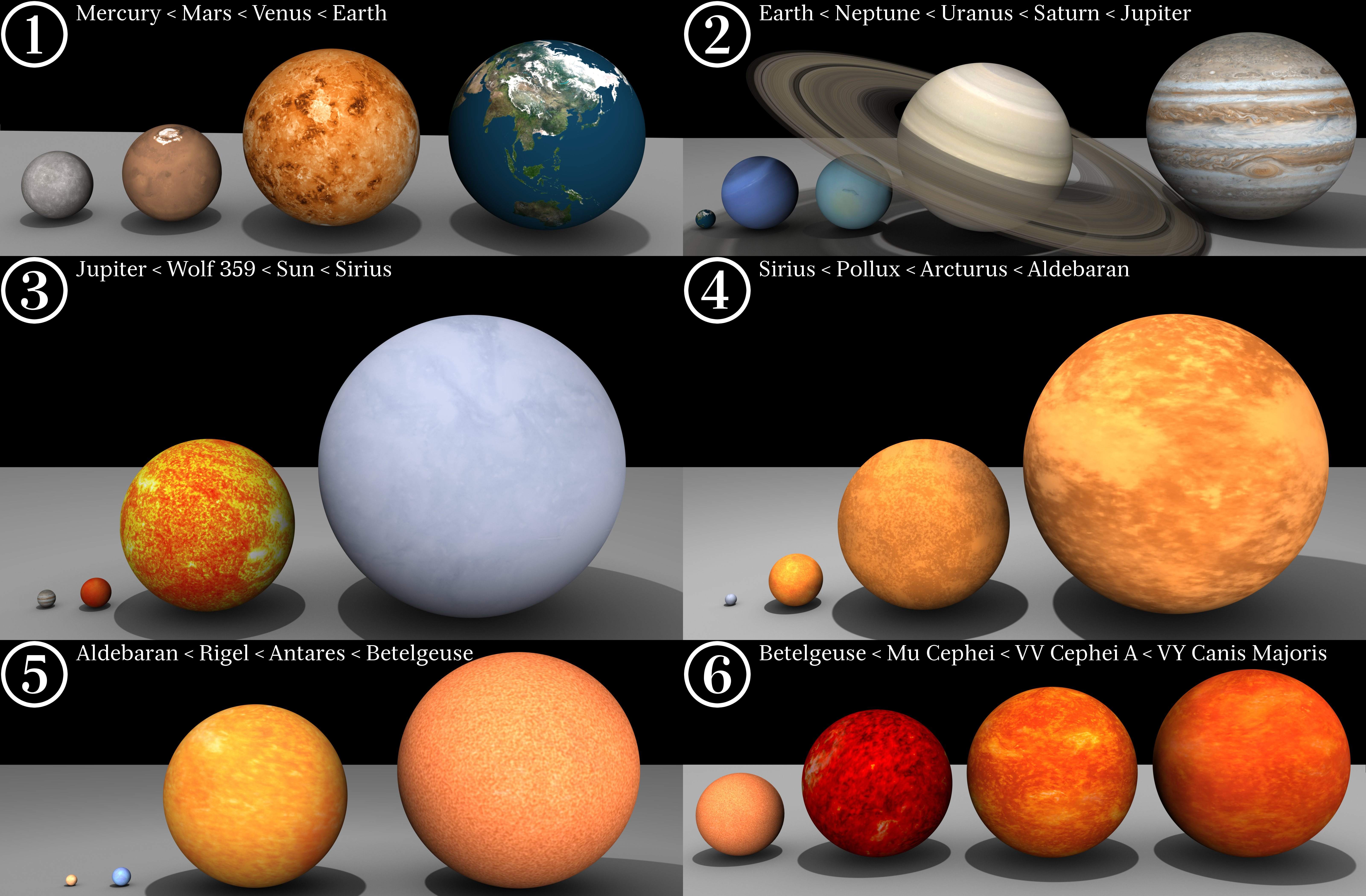 Relative sizes of the planets in the solar system and several well known stars. Star colours are estimated (based on temperature) and Saturn's rings are shown slightly larger in the picture than to scale. Blender 3D was used for the models, lighting, and rendering. The GIMP was used to assemble and label the six renders into a single image. Wolfram Alpha was used to calculate each star's base colour through Wien's Law. The relative sizes of stars in terms of their representative solar radius were calculated for all stars in each frame. Texture maps for stars were created using images of the Sun from SOHO. Planetary texture and bump maps (excluding Earth) were from Celestia Motherlode. Lastly, Earth's texture and bump map were obtained from Natural Earth III.